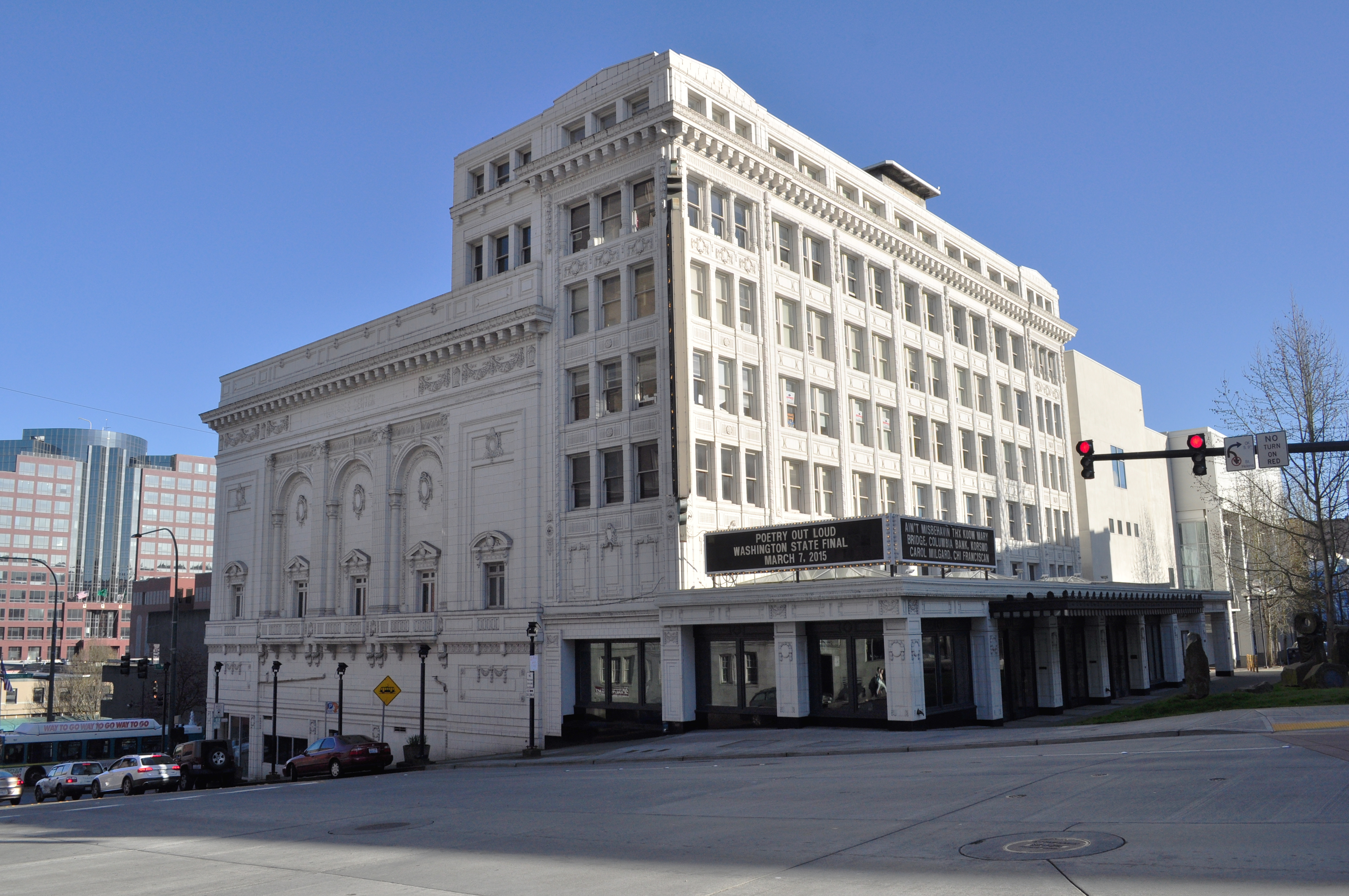 Pantages Theatre, Tacoma, Washington, U.S.